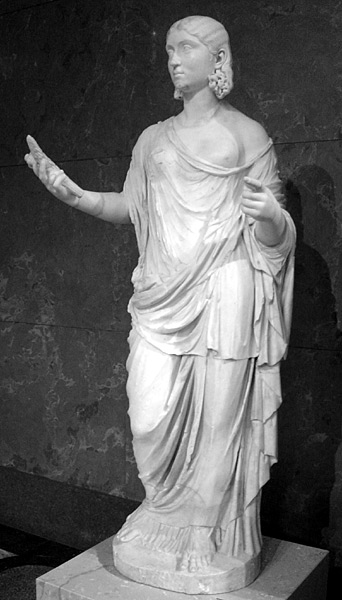 Unknown woman as Ceres. Marble, Roman artwork, ca. 235 - 250 CE. A talk-page comment on the en-wikipedia Ceres article states this as the portrait-statue of an unknown woman, not an image of the Goddess Ceres. The Louvre website describes it as an an unknown woman as (thus, with the attributes of) Ceres. See Louvre catalogue for details.